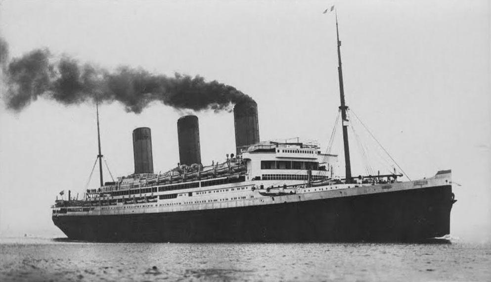 RMS Majestic from an old postcard